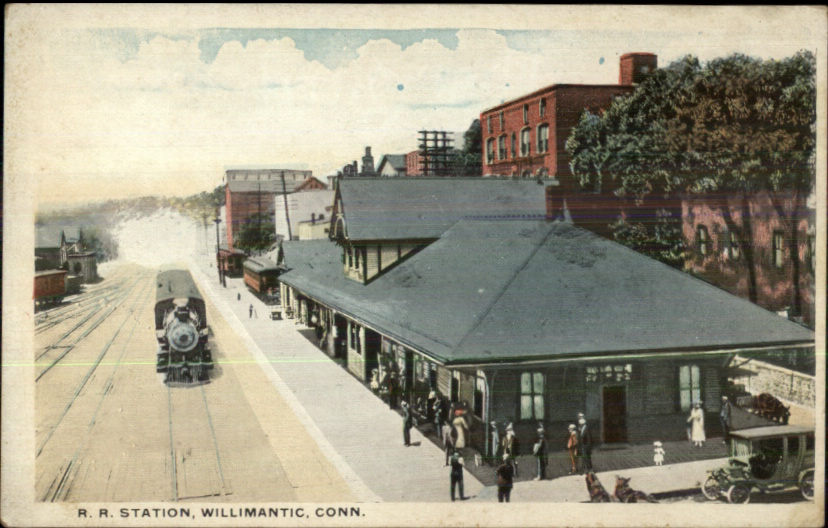 Early white border postcard of Willimantic station